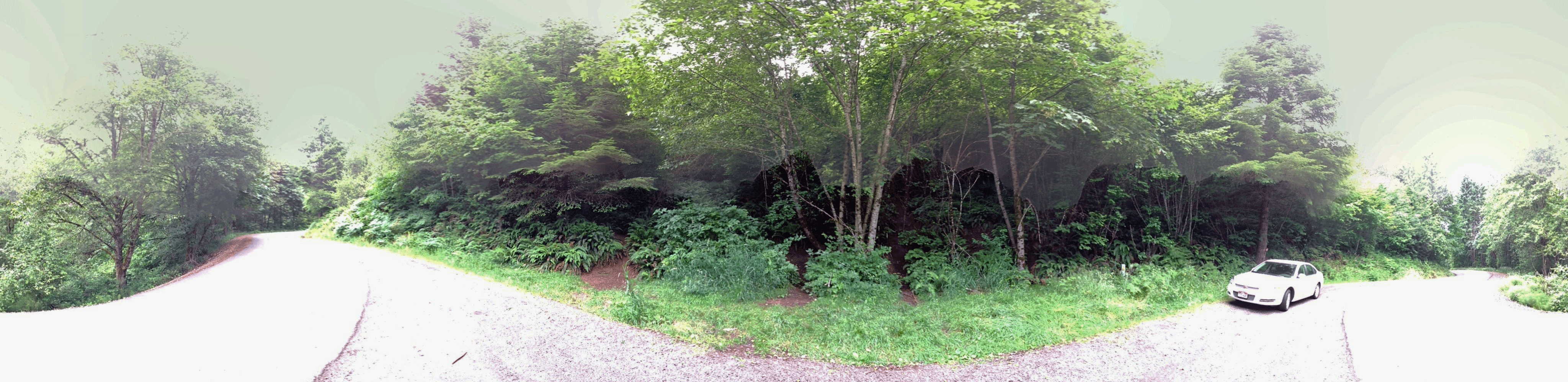 This is where the very first Geocache was placed by Dave Ulmer